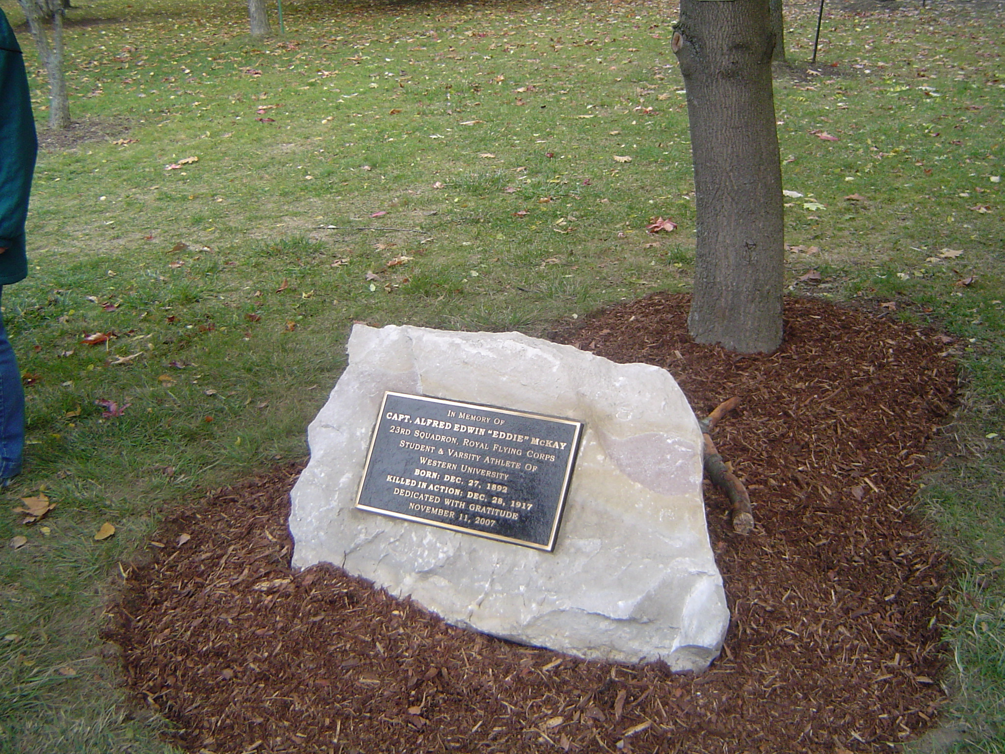 Eddie Mckay commemorative marker at the University of Western Ontario. Picture taken at memorial ceremonies, November 8th, 2007.